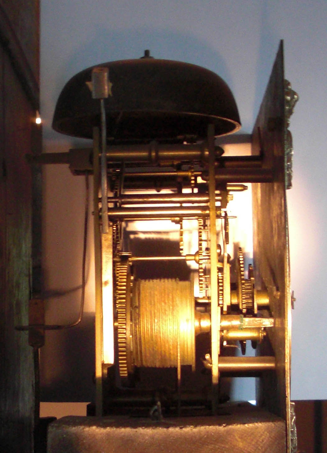 Lateral view of a Timothy Mason longcase clock movement with striking mechanism, circa: 1730. The top of the pendulum and the crutch that drives it can be seen on the left side of the case. At center is the drum with rope coiled around it which is turned by hanging weights to power the clock. The face and hands of the clock are on the right side.